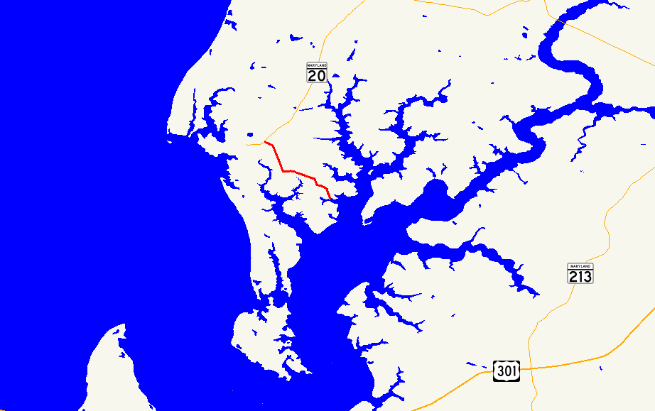 Map of Maryland Route 288